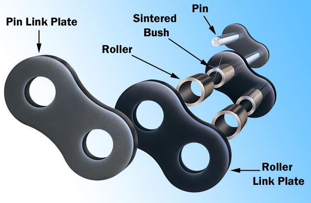 An exploded view of a Tsubaki Lambda Chain roller chain link